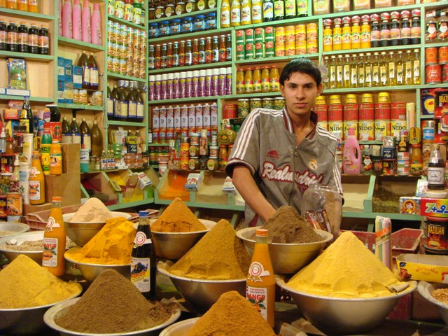 A spice shop in a Nasiriyah province, south of Iraq. Most of the displayed spices are imported from India and will be used in Iraqi traditional meals.